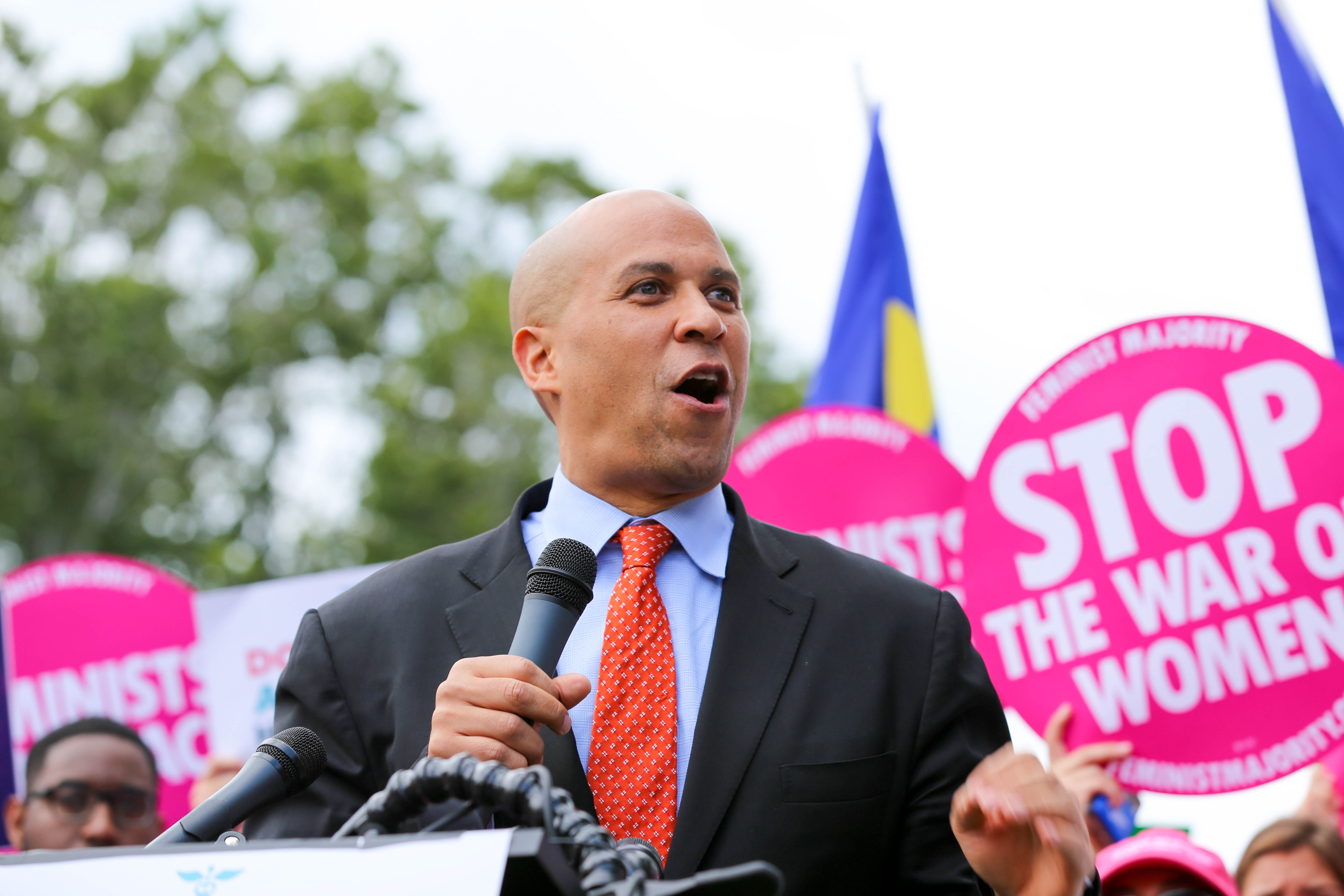 IMG_9803. Cory Booker at a pro-Obamacare health care rally. In the background are supporters of Planned Parenthood.